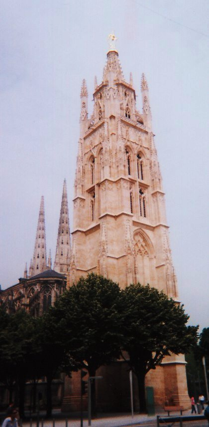 Pey Berland from its foot